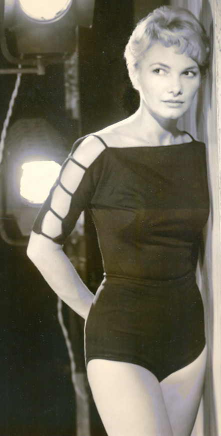 Publicity photo of actress Barbara Loden for the daytime drama Today Is Ours.